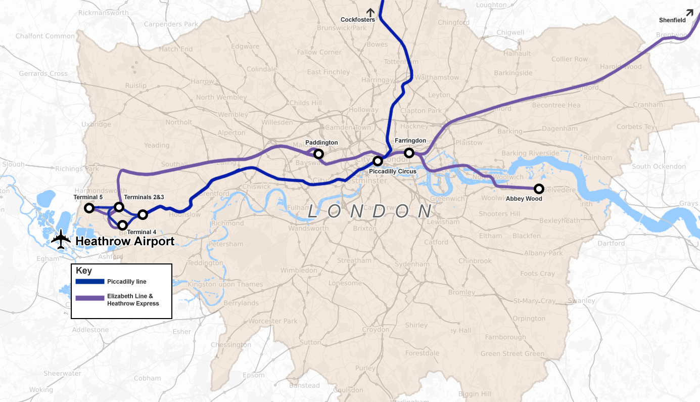 Outline map of Tube and rail lines serving Heathrow Airport out of London, UK, showing the Piccadilly line, Heathrow Express and the Elizabeth line (opening late 2019) This map may be incomplete, and may contain errors. Don't rely solely on it for navigation.